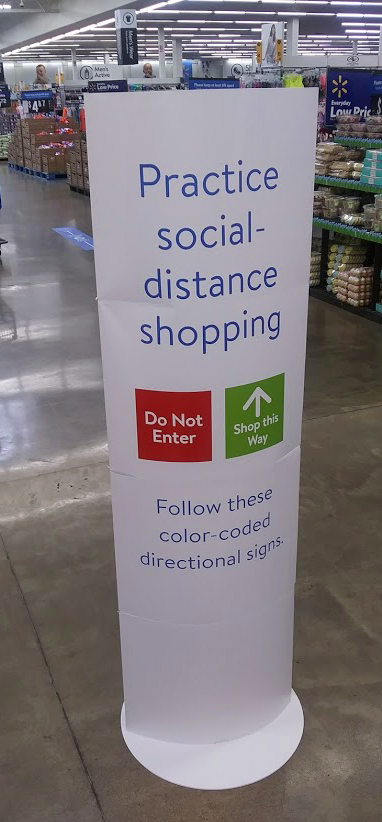 Sign advising Walmart shoppers of stricter social distancing rules, now limiting narrower aisles to one-way traffic, at the chain's Newburgh, NY, USA, store during theCOVID-19 pandemic